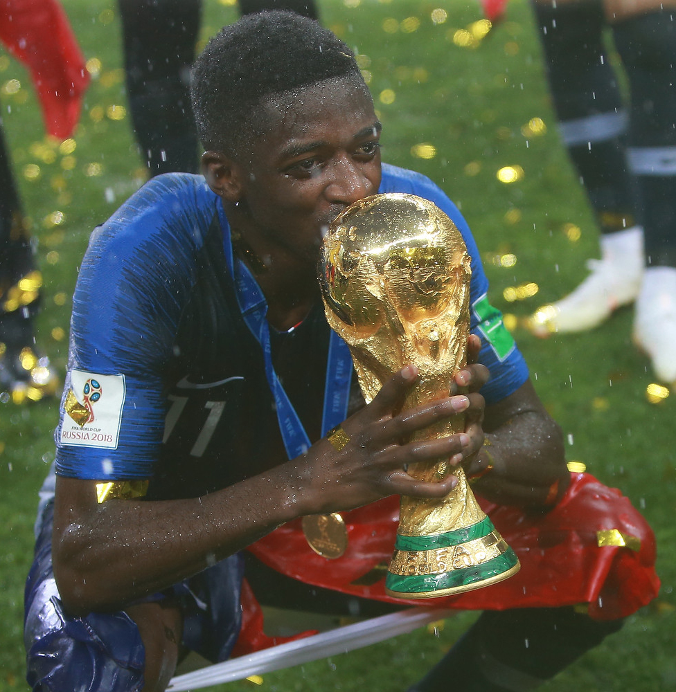 French footballer Ousmane Dembélé holding the FIFA World Cup Trophy after the tournament's final match on 15 July 2018.